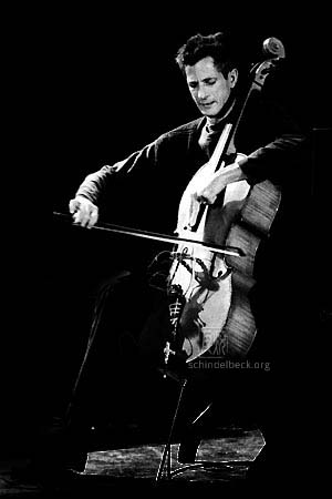 Image of Tom Cora by Frank Schindelbeck